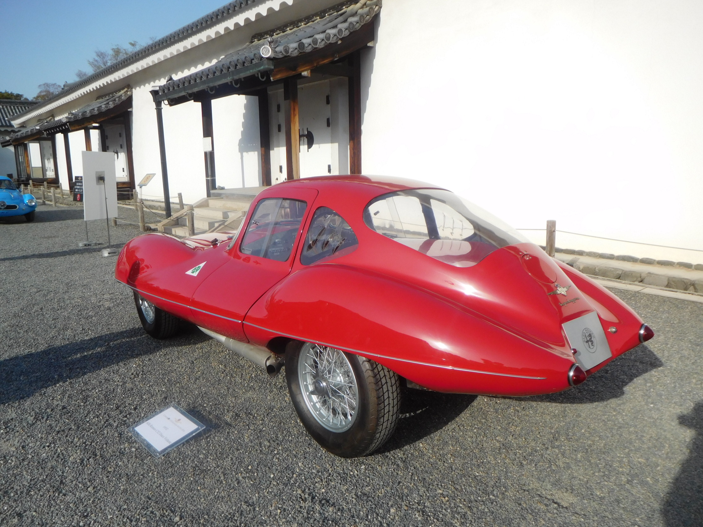 Alfa Romeo Disco Volante at the Concorso d'Eleganza Kyoto 2018, Nijō Castle, Kyoto.